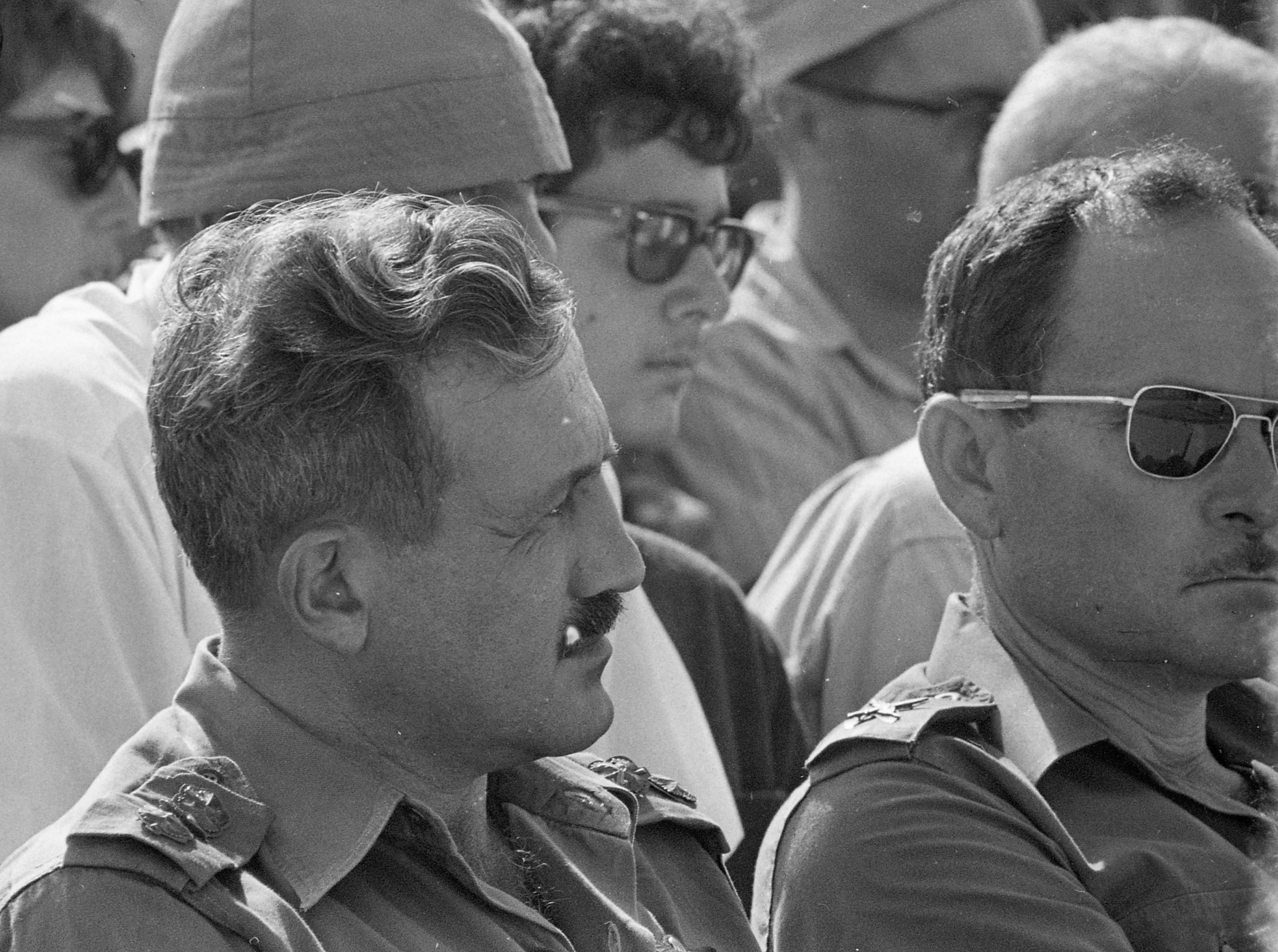 The new Nahal military settlement, Nahal Dikla, was officially founded in north Sinai near the town El-Arish.